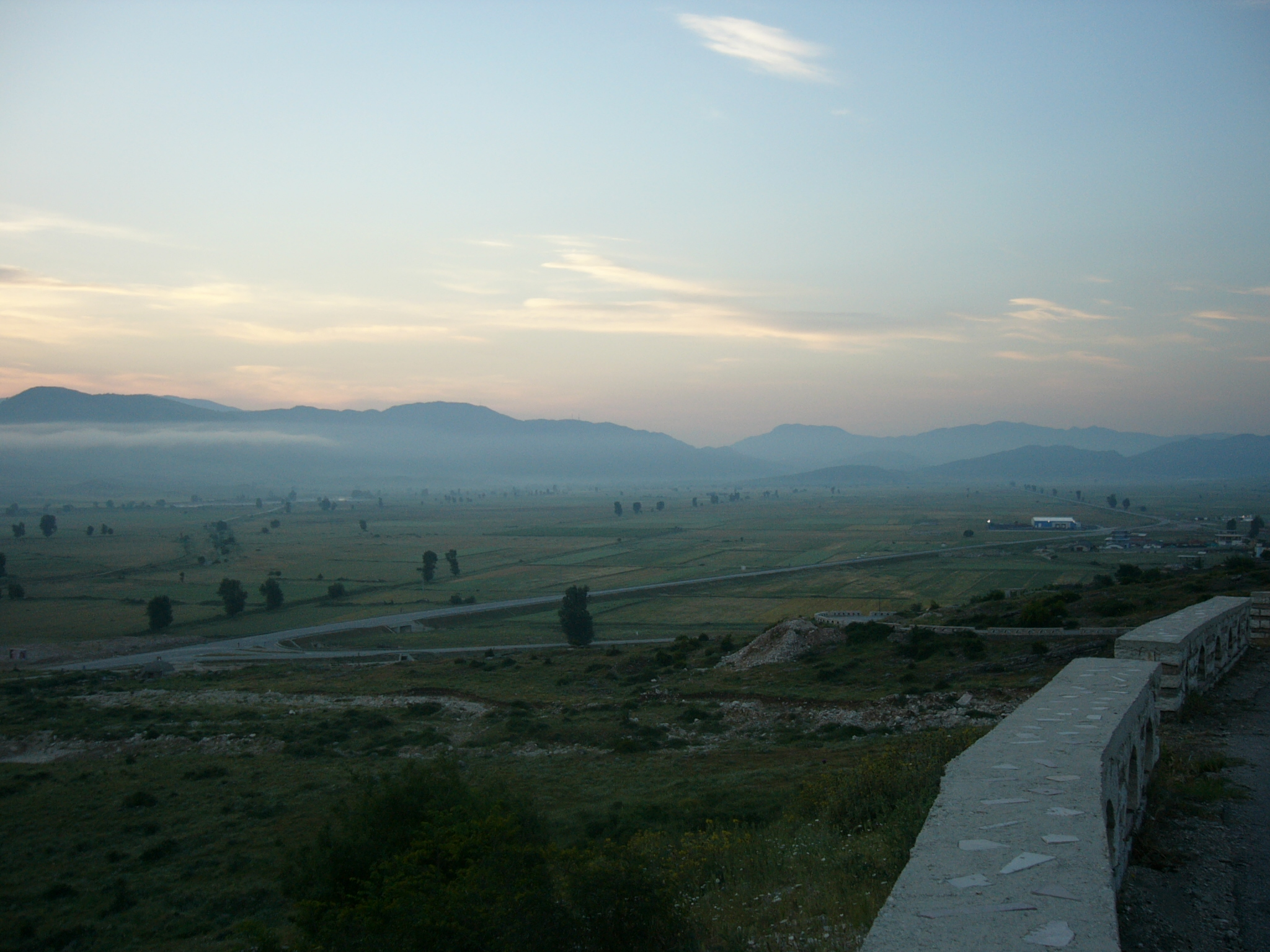 The valley of the Drinos near Gjirokastër, Southern Albania